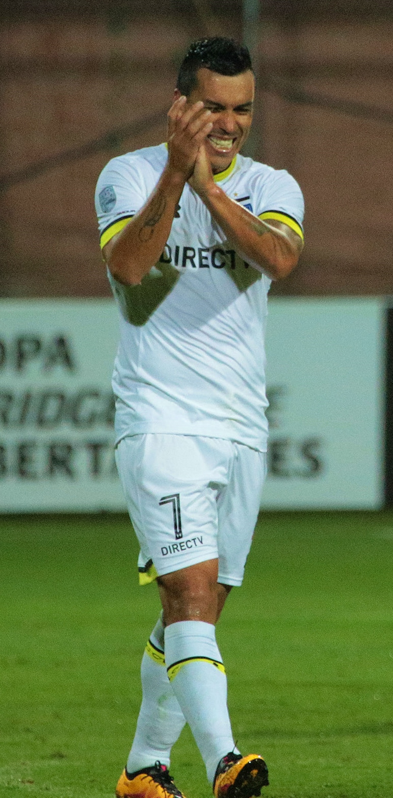 Esteban Paredes